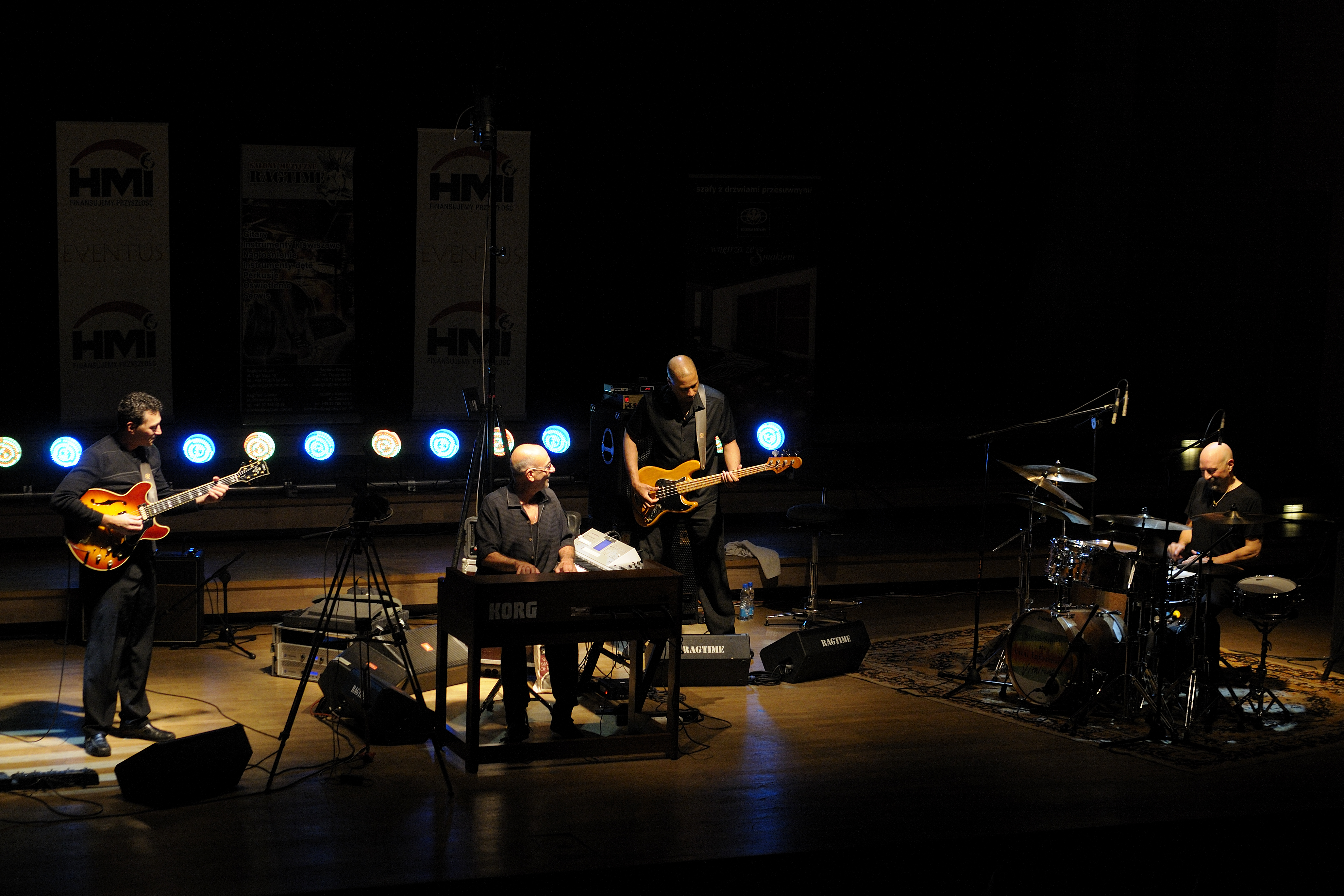 View all 12 photos from the clinic, concert and meet&greet